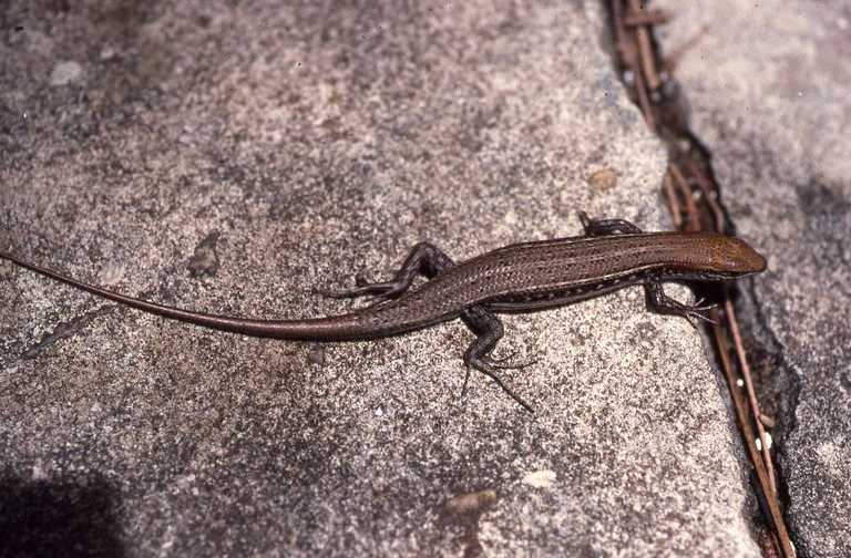 Trachylepis elegans at Ifaty, Madagascar